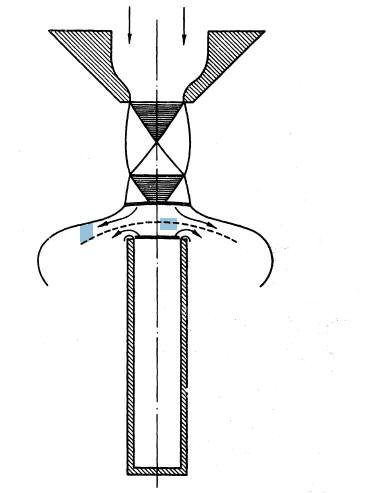 A cavity resonator